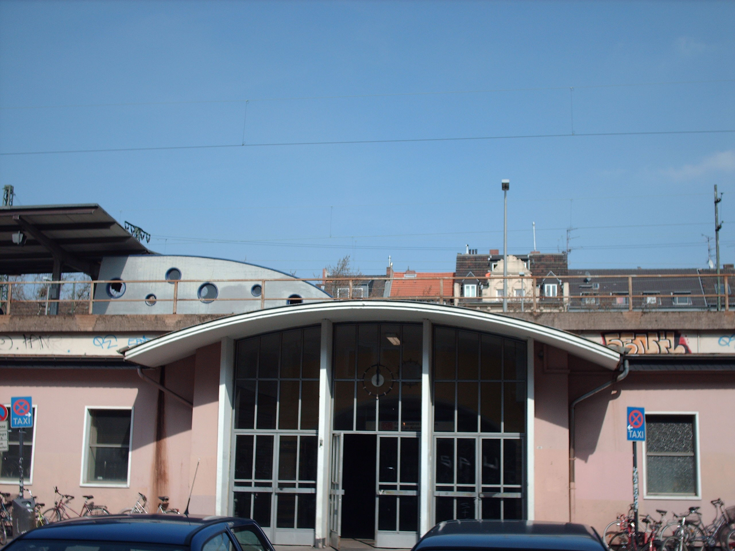 Köln Süd station, Cologne, Germany check usage